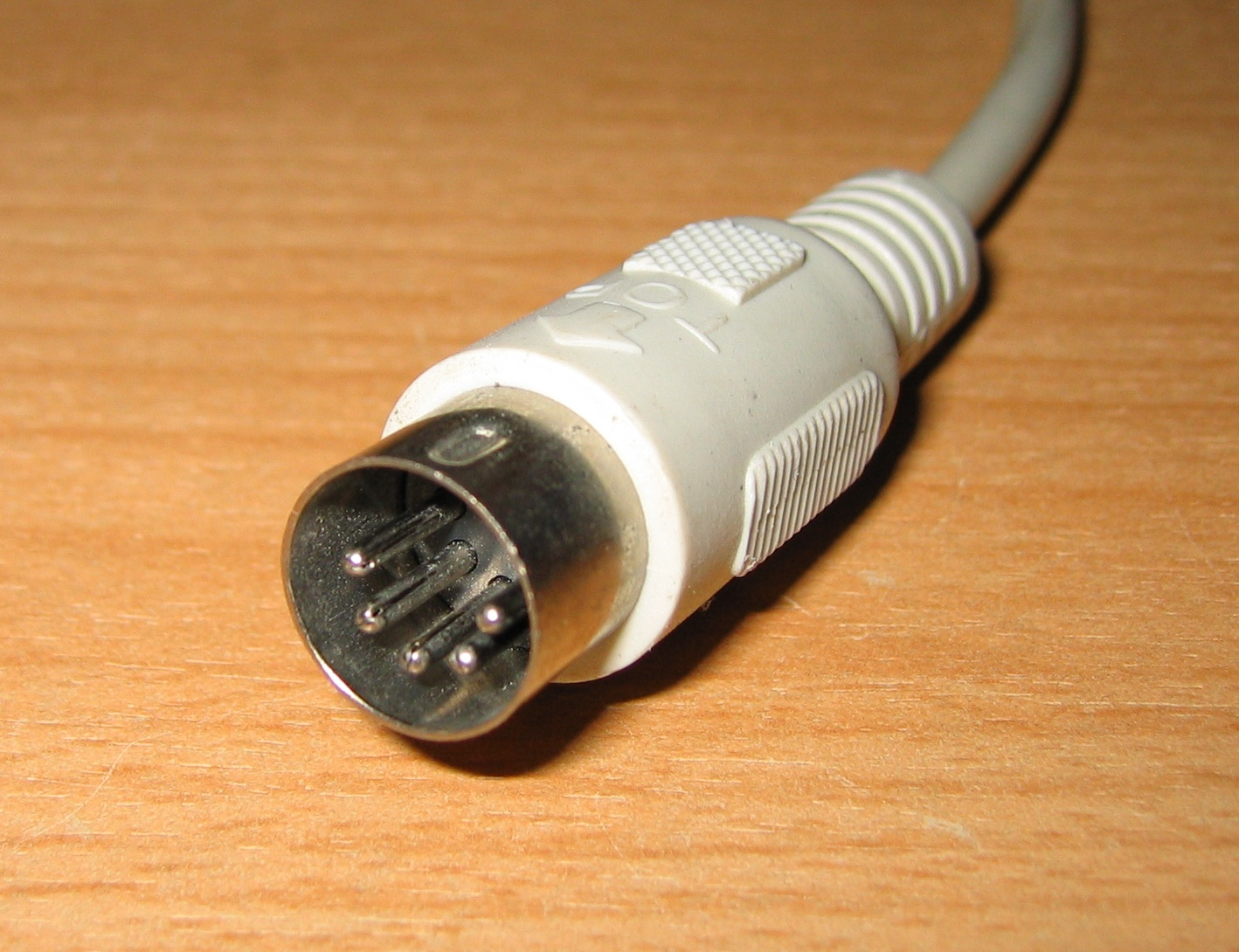 A 5 pin DIN connector of a PC keyboard